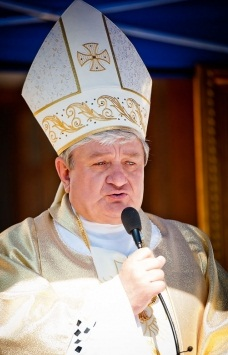 Pr. Anthony Norman - Administrator of diocese of Krakow-Czestochowa Polish Catholic Church